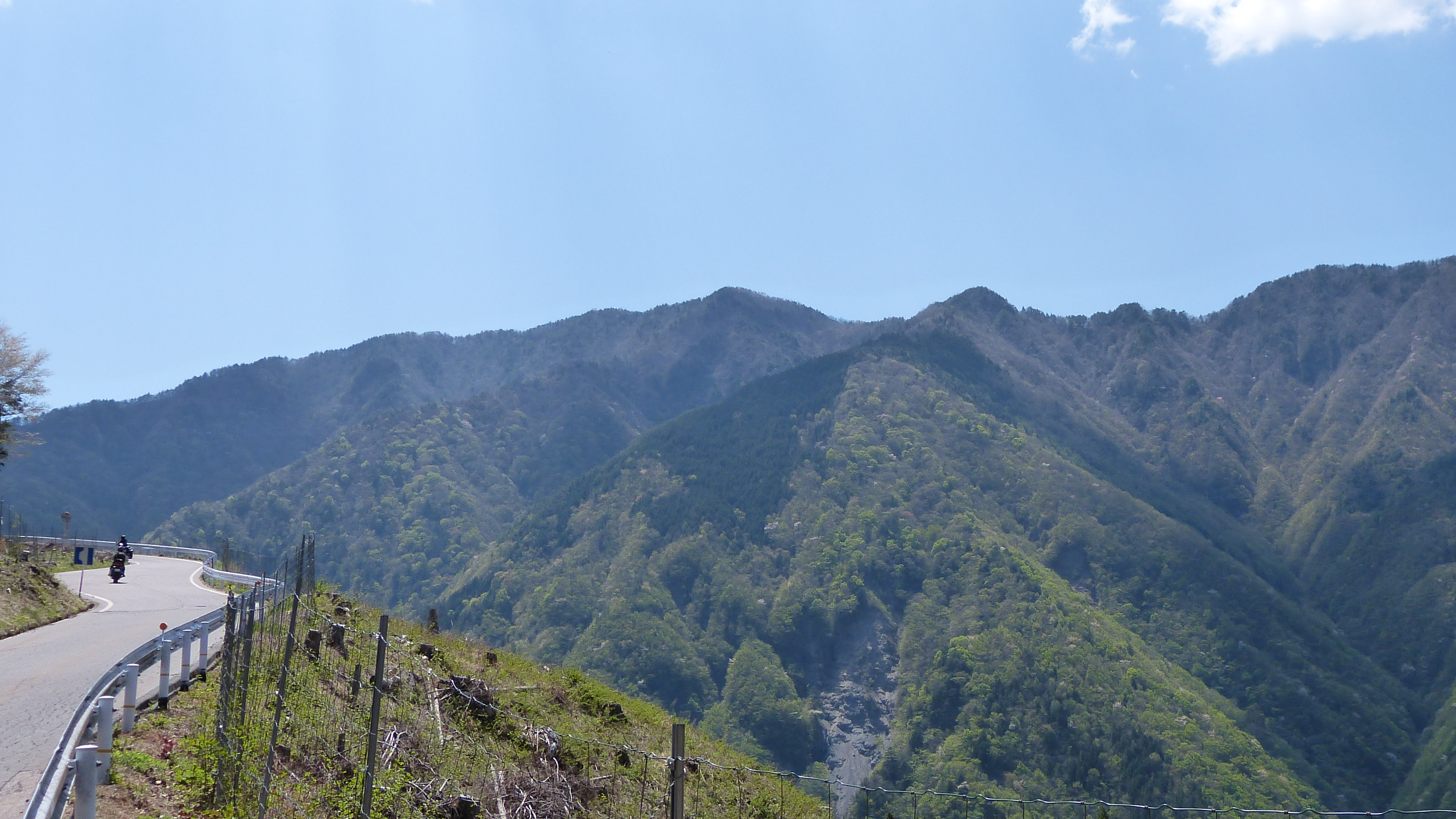 Mt Kumabushi,Nagano prefecture, Japan